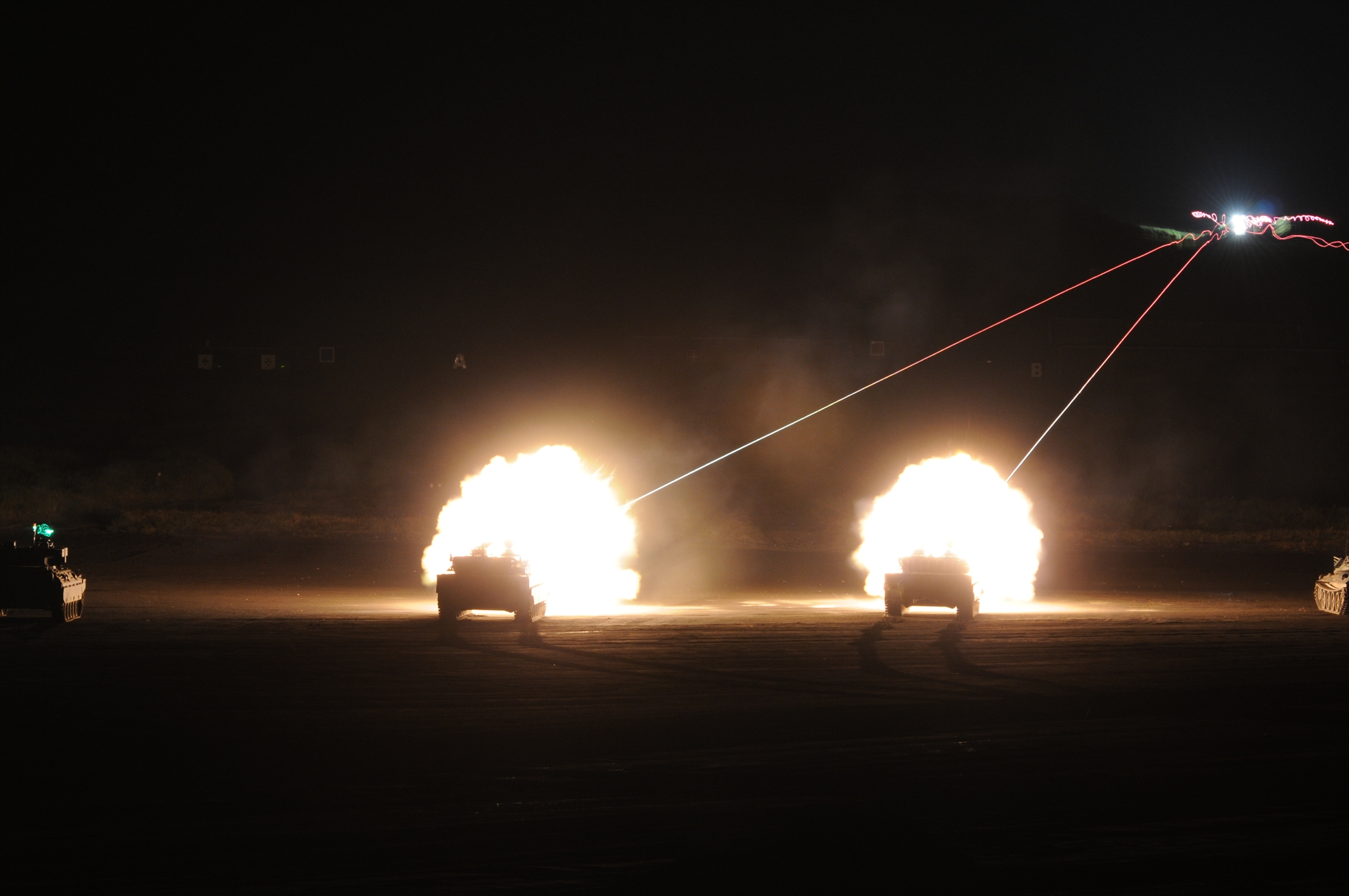 Title ９０21_07_018.JPG Album 富士総合火力演習・そうかえん 夜間演習（９０式戦車）